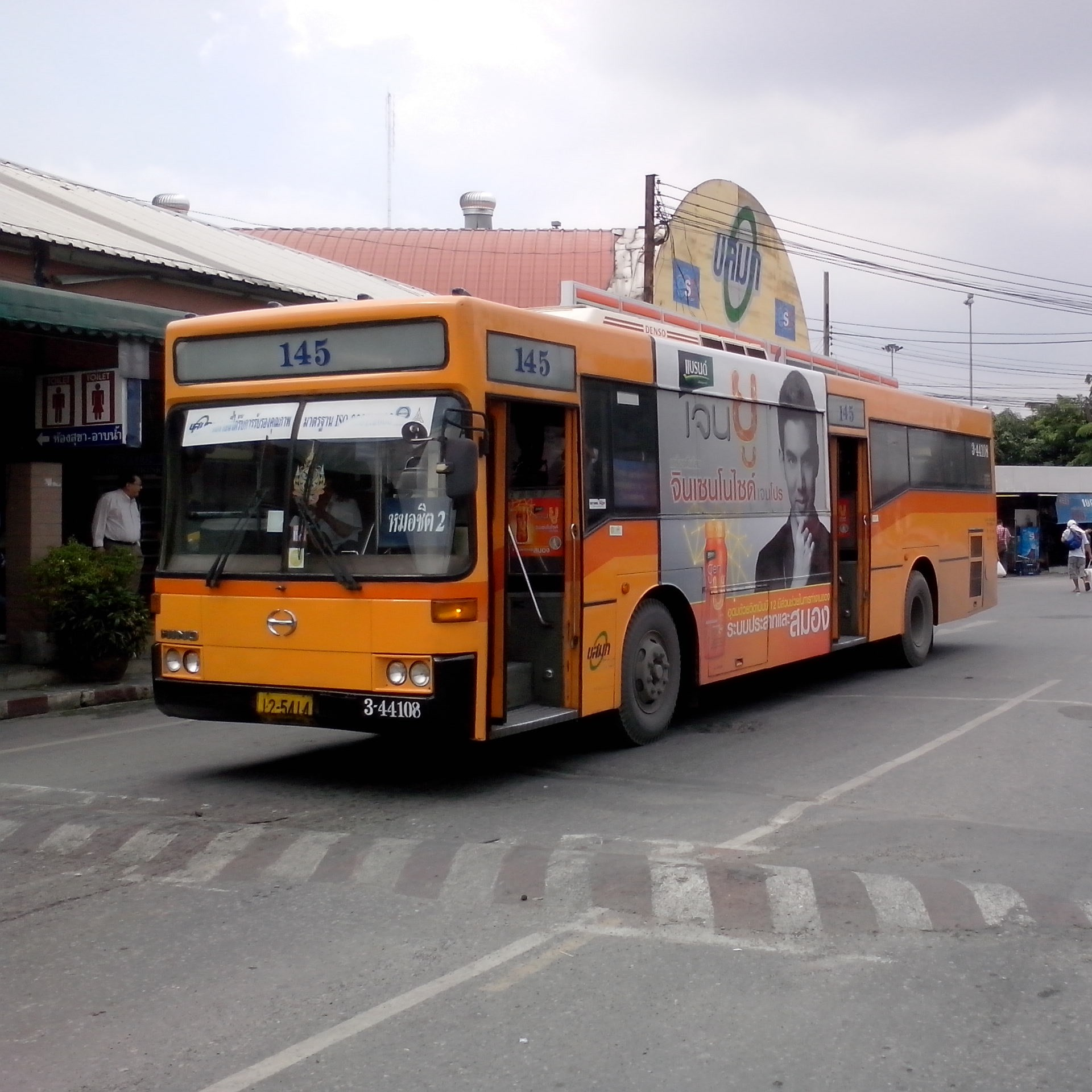 bus no.3-44108